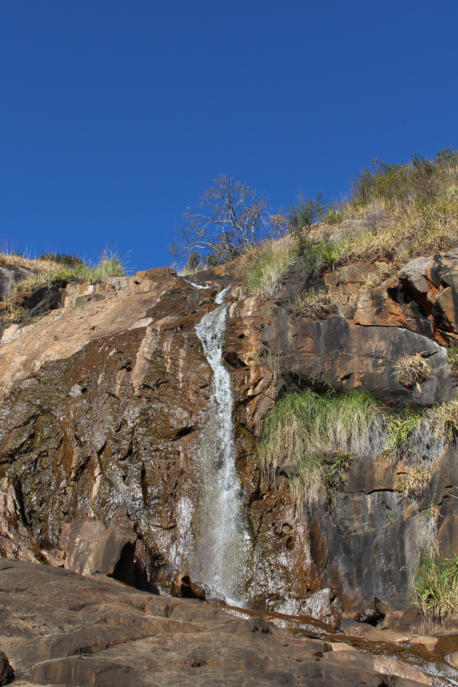 Foot of Lesmurdie Falls in the Mundy Regional Park.